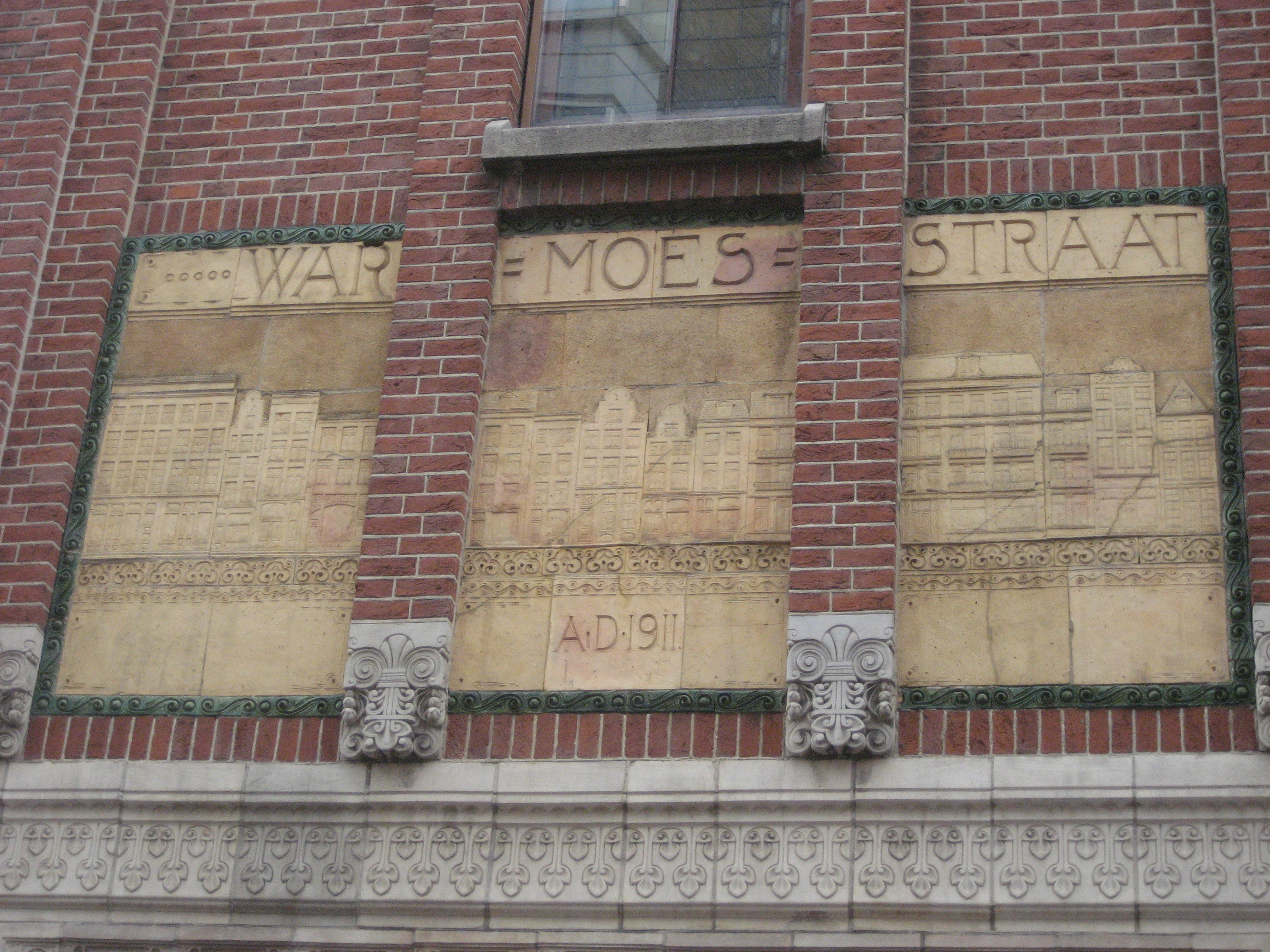 Warmoesstraat, Amsterdam (The Netherlands)